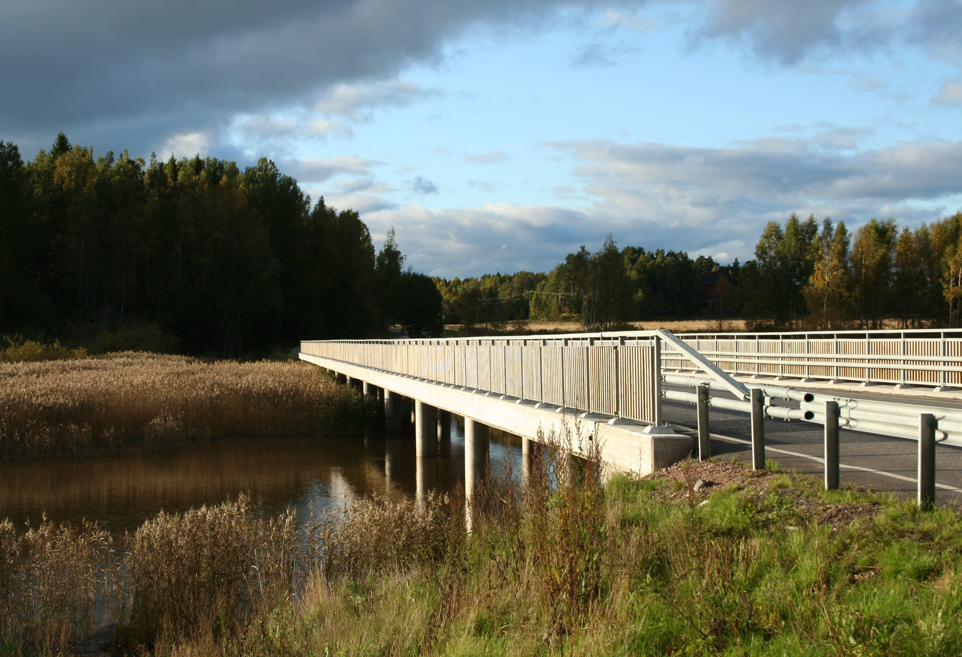 Vårnäs bridge, Kirkkonummi, Finland. Completed 2010. Bridge between Porkkalanniemi and Upinniemi. Photo taken from Porkkalanniemi.